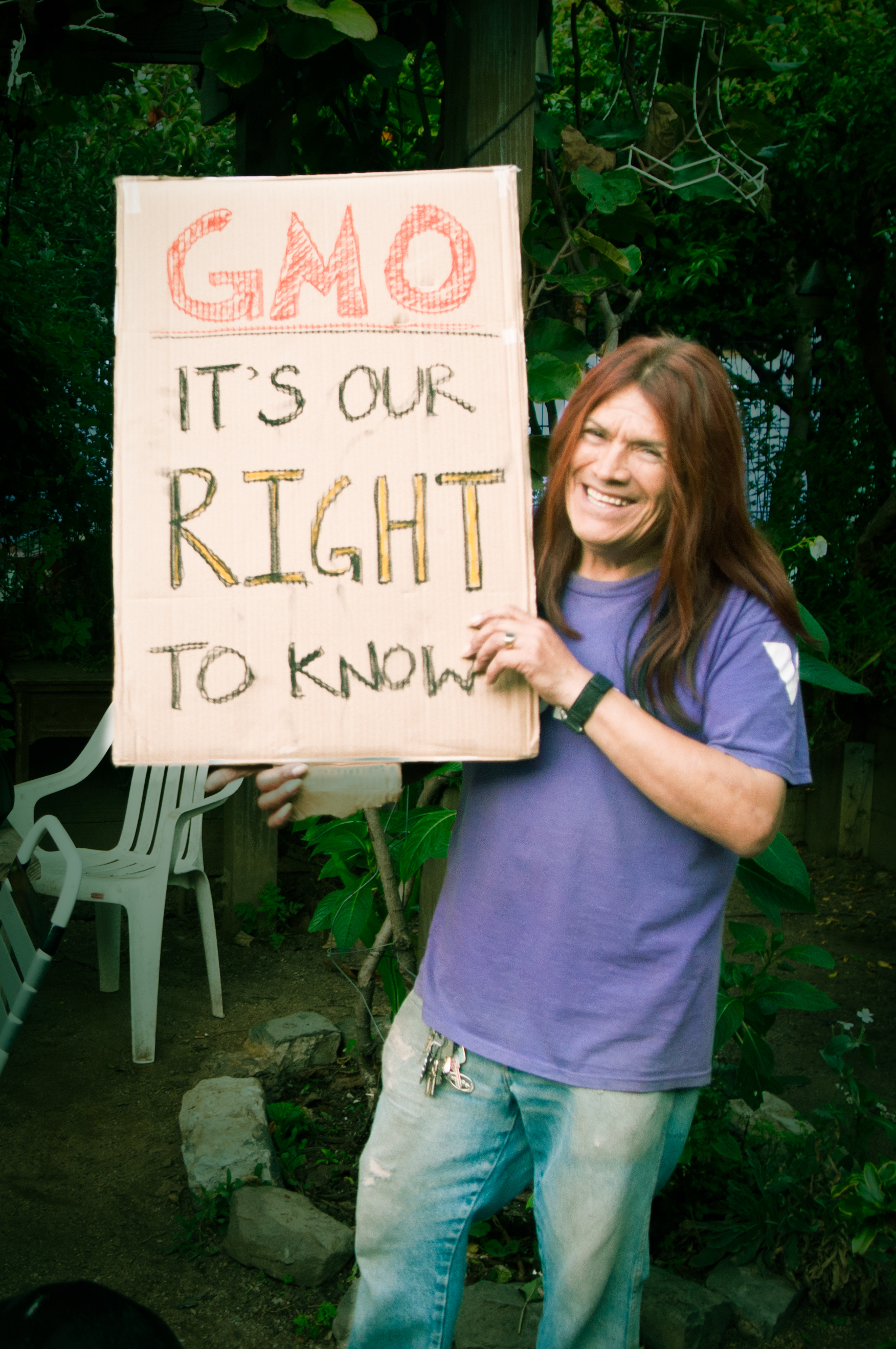 A protester in San Francisco, California, advocates for the labeling of GMO constituents in foodstuffs.